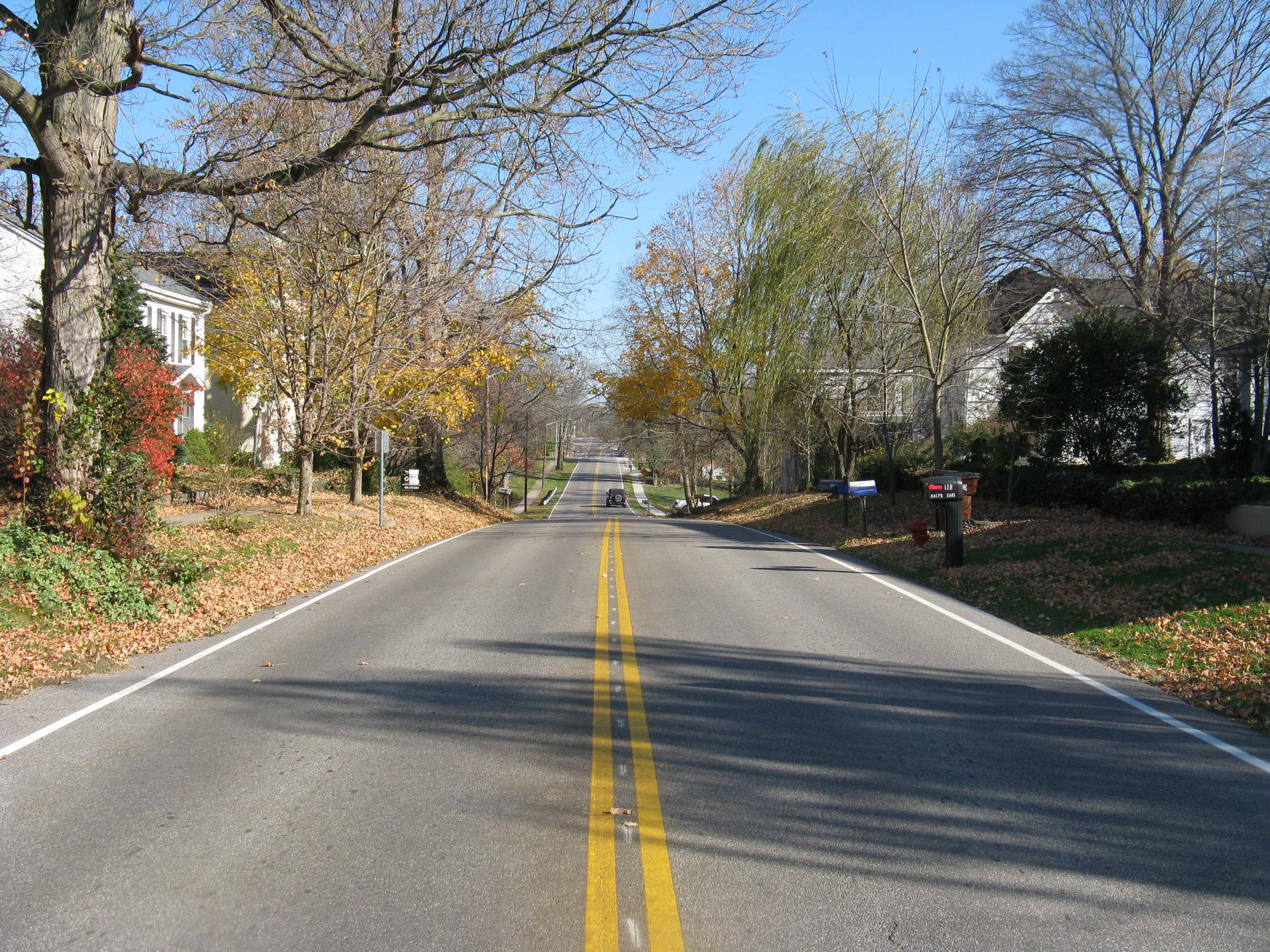 View down Main Street in Hanover, Indiana, USA